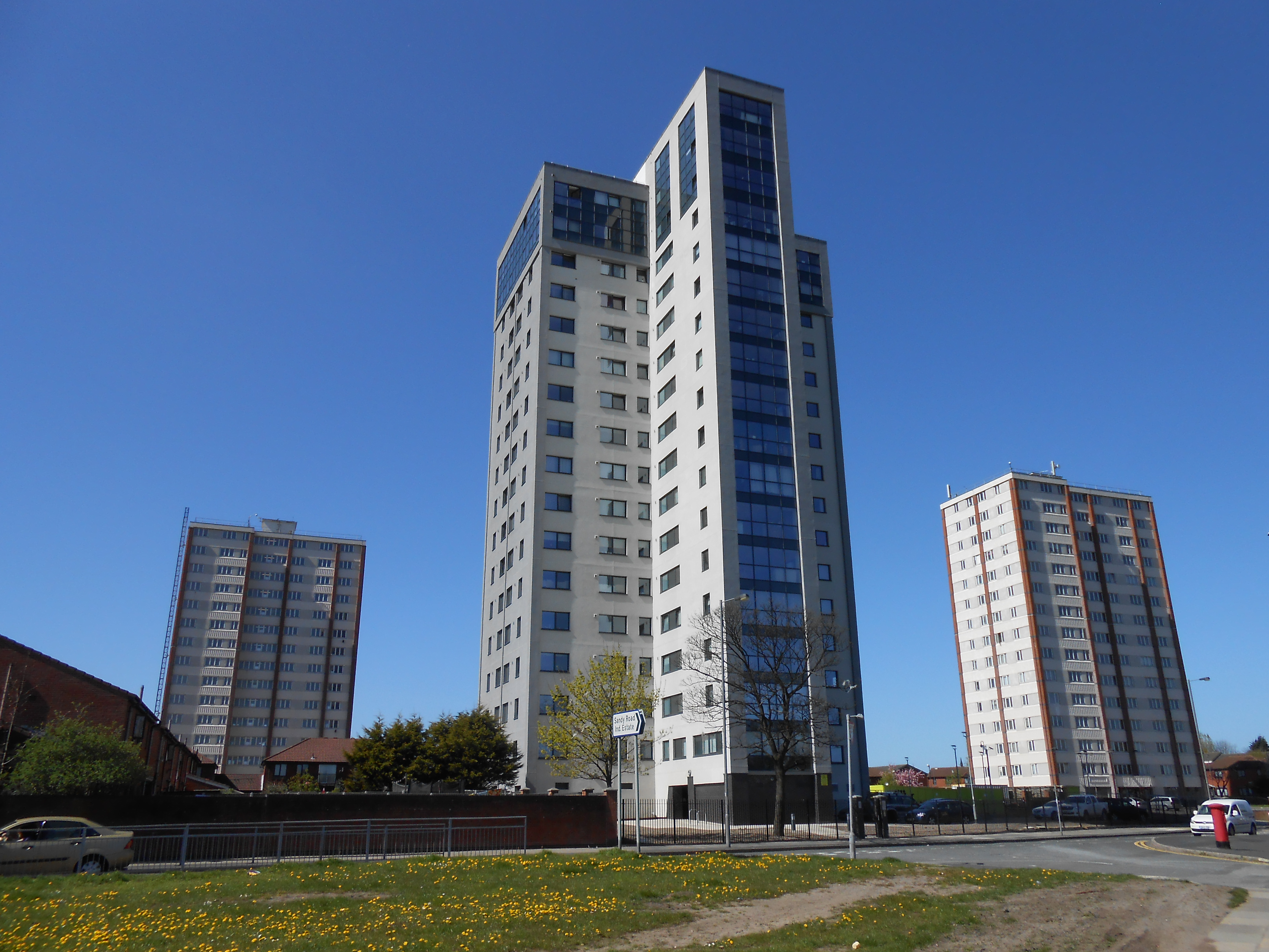 Hi-rise flats near Sandy Road, Seaforth, Merseyside, England. From left to right, Montgomery House, Alexander House, Churchill House. Demolition of Churchill House and Montgomery House was attempted in April 2016; Churchill house coming down after being imploded but Mongomery House failing to fall. The area was evacuated for safety.